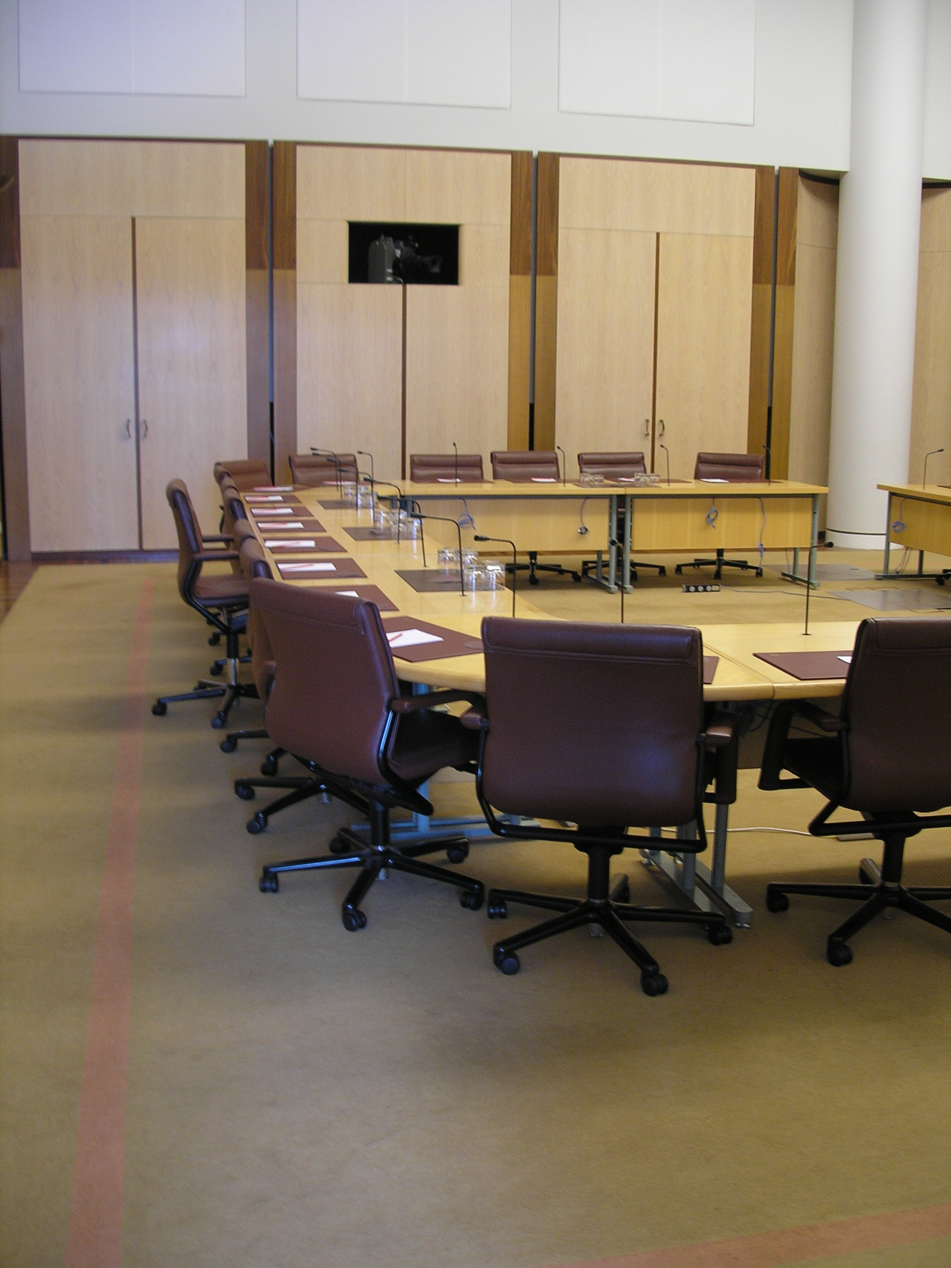 Desk and chairs of a Senate committee room, Australia's Parliament House. Taken by hamiltonstone, 12 September 2007